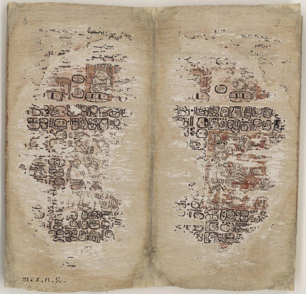 Pages 8-9 of the Paris Codex, a Postclassic Maya book.